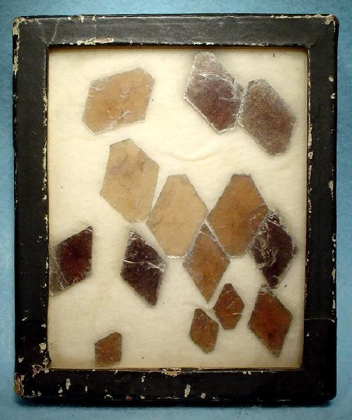 Mica Locality: 162nd Street & Broadway, Manhattan Island, Manhattan (New York County), New York City, New York, USA (Locality at ) Size: 11.4 x 9.5 x 2.6 (box). A HISTORIC set of 14 mica sections from New York City, mounted in an antique glass-covered box. Written in the back in pencil is: "Mica, Bdwy & 162 St, NYC". This set probably belonged to or was sold by James Manchester, 1871-1948, a prominent member of the New York Mineralogical Club. He succeeded George Kunz as president of the club. Mr. Manchester was instrumental in the club publishing "The Minerals of New York City and its Environs" in 1931. He was known to have dispersed many NYC minerals found in this time, and a small collection was passed on to me which contained a number of pieces with his label physically attached, or associated. Although his label is not on this piece, it is from the same collection as those more documented specimens and one assumes possibly from the same original source.